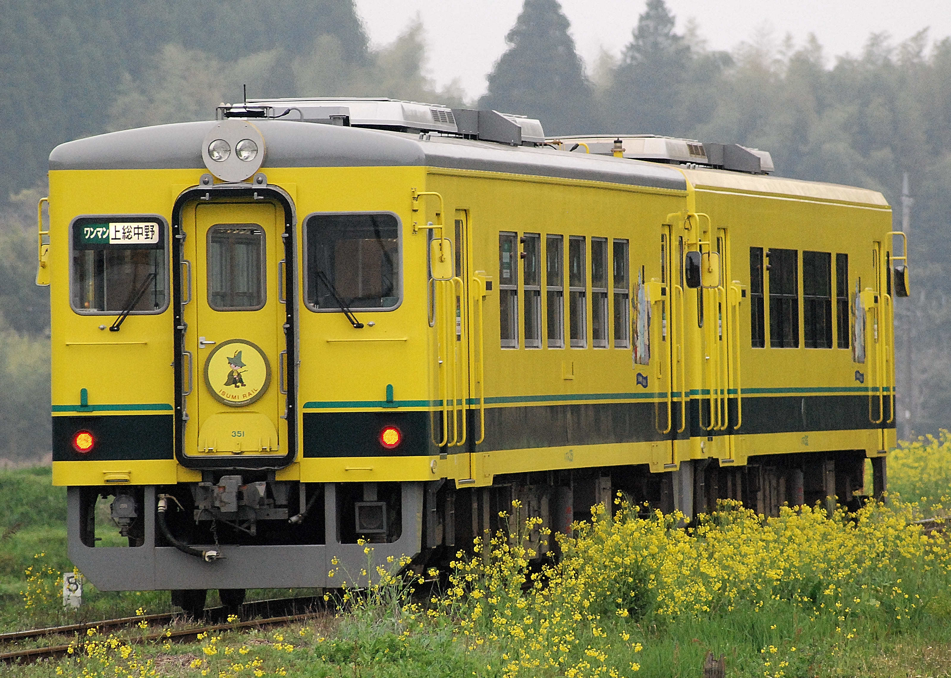 Isumi Railway Class 350 DMU car 351 together with a Class 300 DMU car